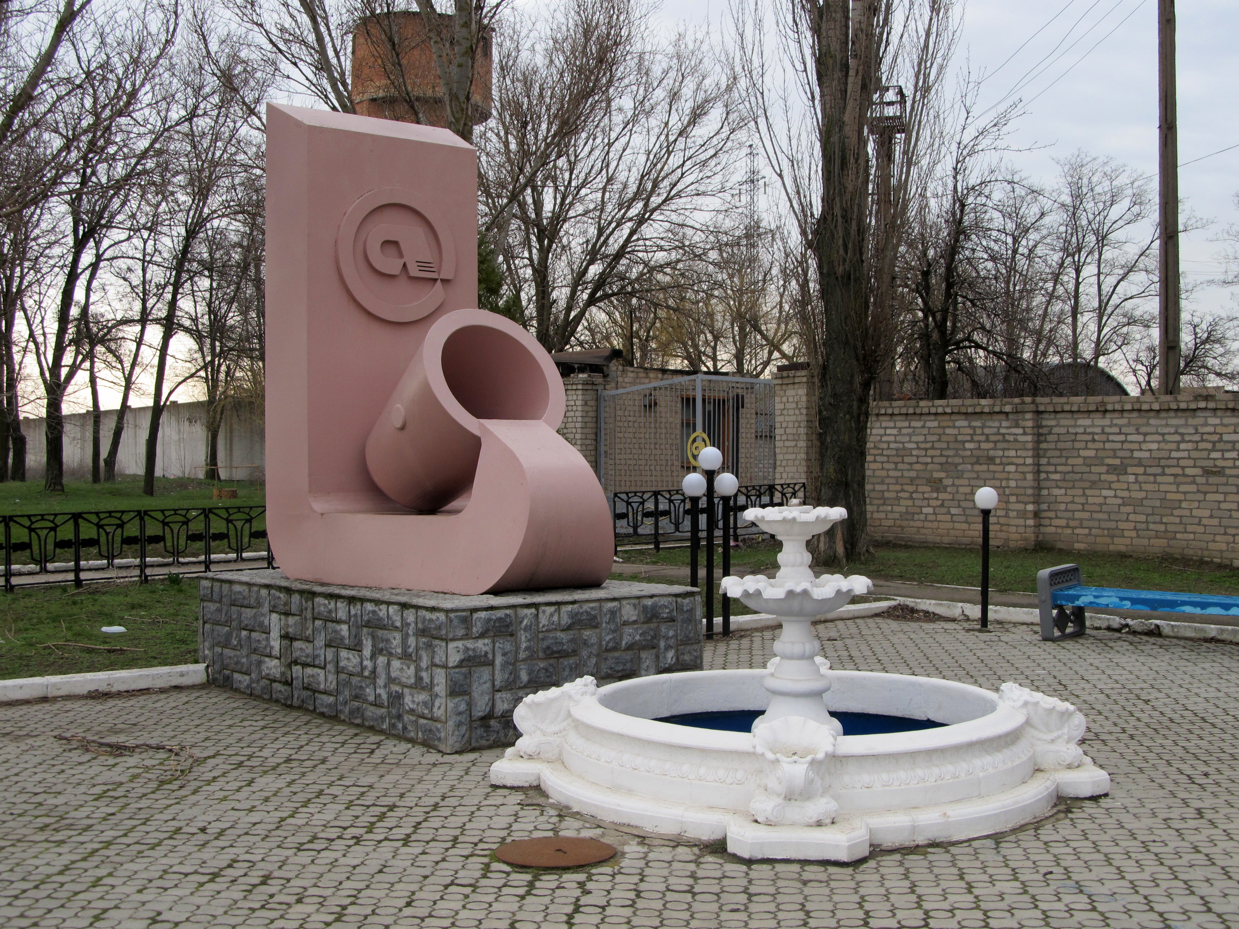 Timoshenko Square (Melitopol, Zaporizhia oblast, Ukraine).